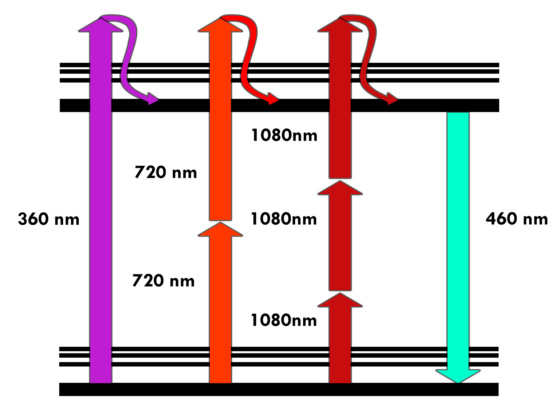 Original figure legend: Perrin-Jablonski fluorescence diagram. Simplified Perrin-Jablonski scheme for 1PE, 2PE and 3PE. Once the excited state has been reached the subsequent fluorescent emission is the very same for the three different modalities of excitation.